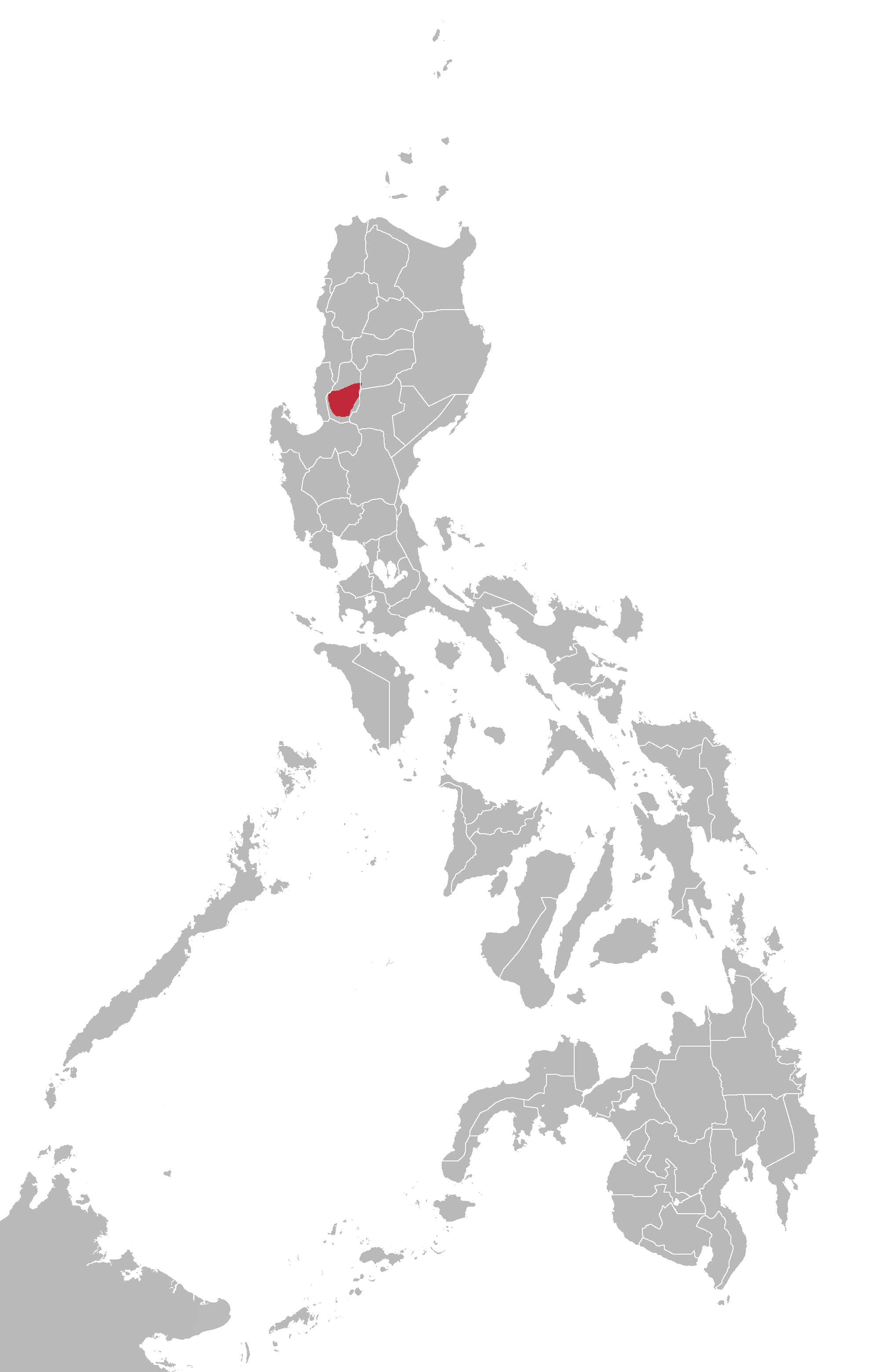 Ibaloi language map based on Ethnologue maps